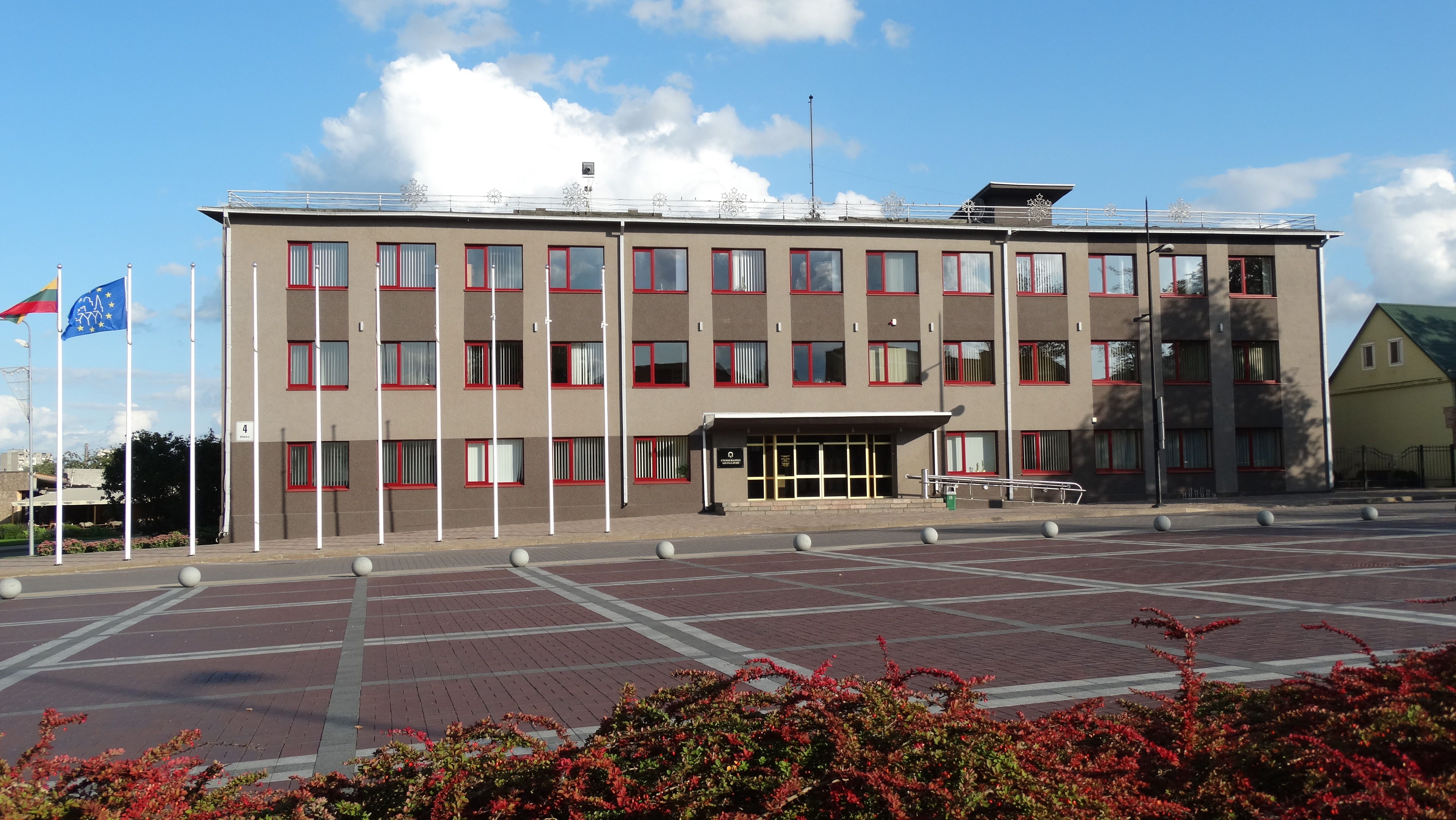 Municipality in Utena, Lithuania